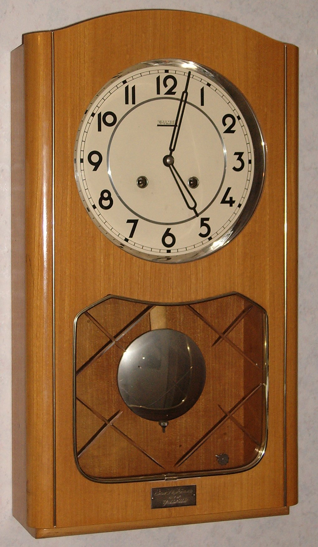 Old wall clock made by Valmet Photo taken by Käyttäjä:kompak (9th of April 2005)